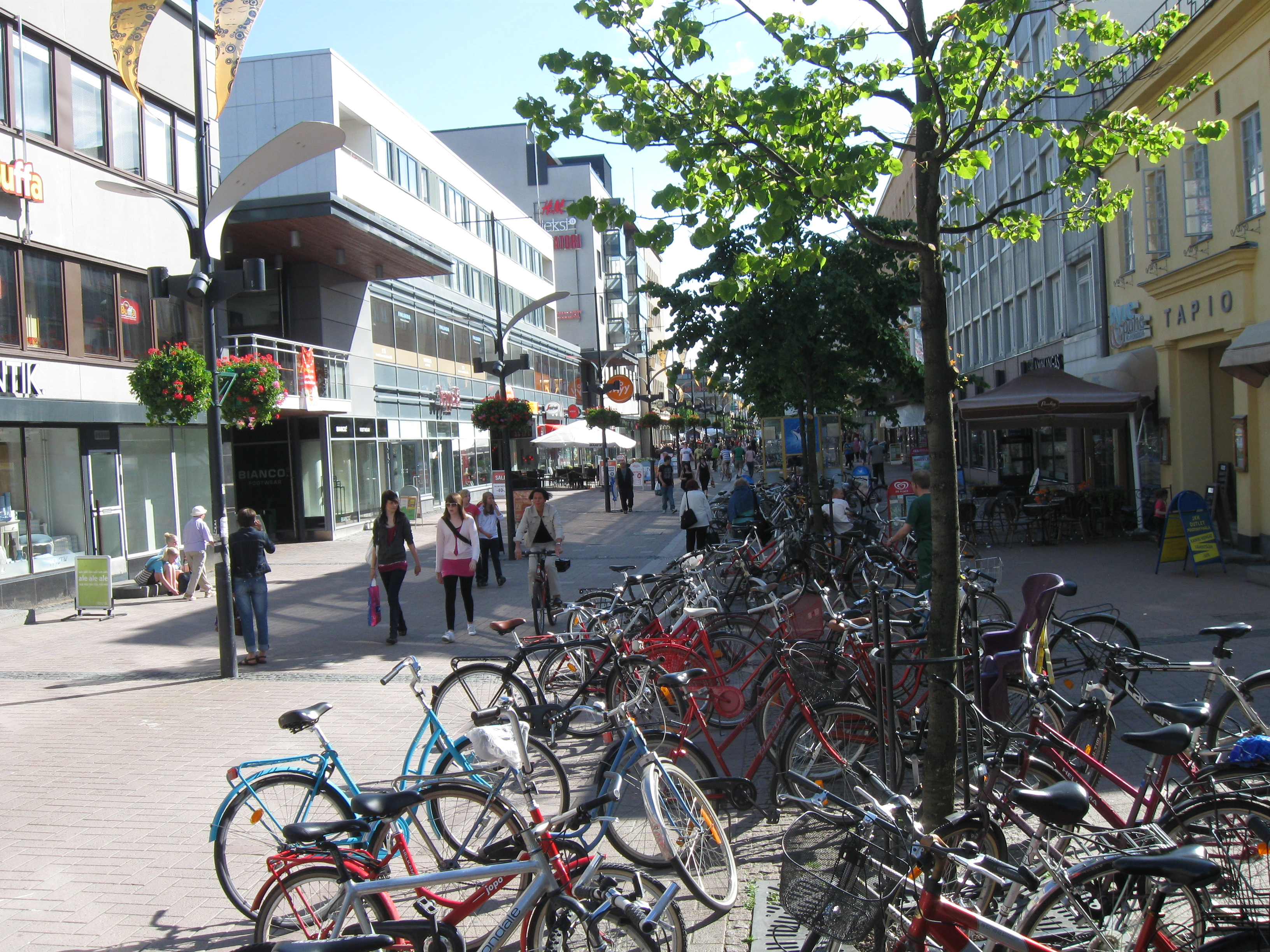 Joensuu's kauppakatu which is a pedestrian zone.